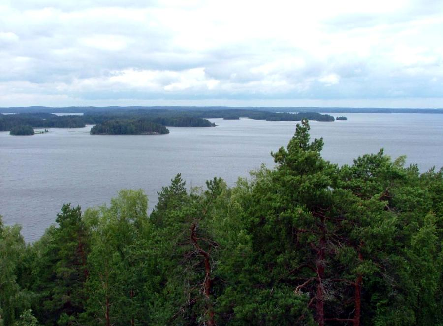 Lake Roine viewed from Vehoniemi observation tower in Kangasala, Finland.